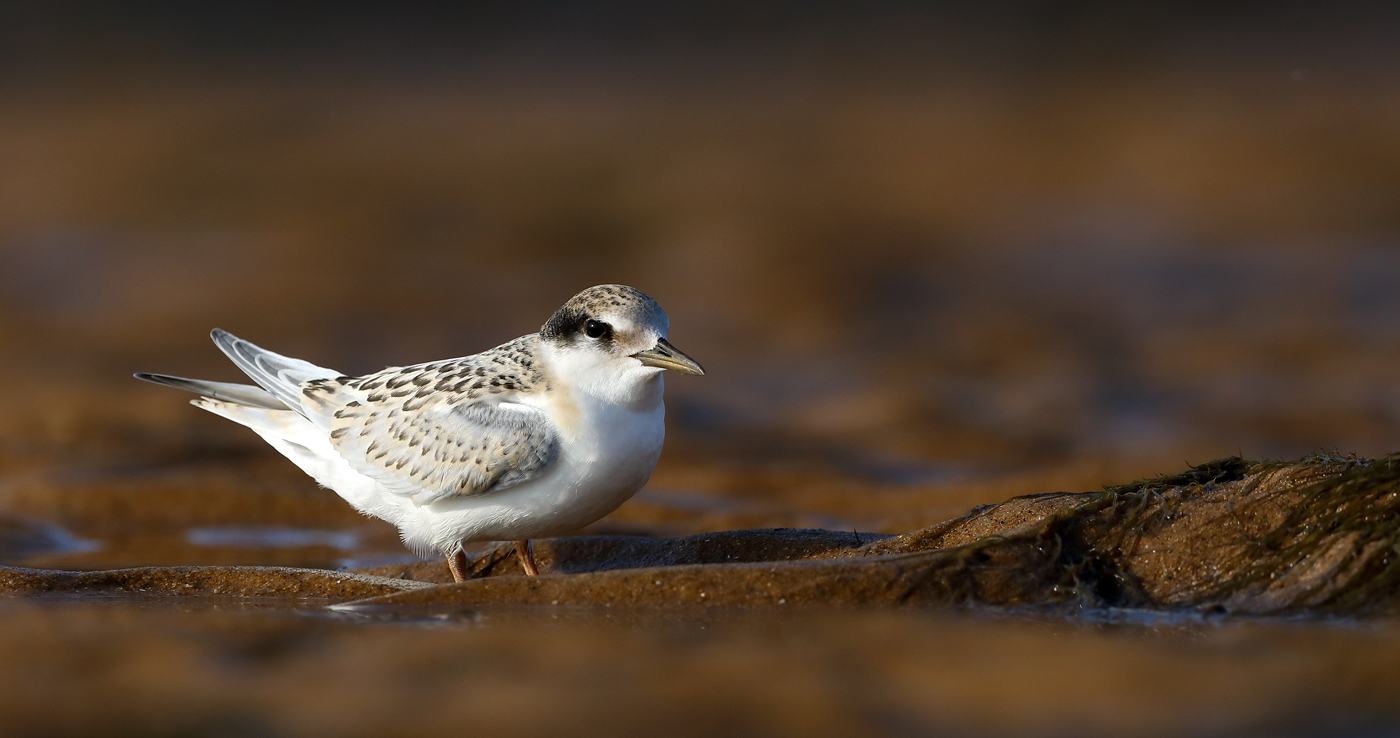 Sternula nereis, Rhyll, Vic.